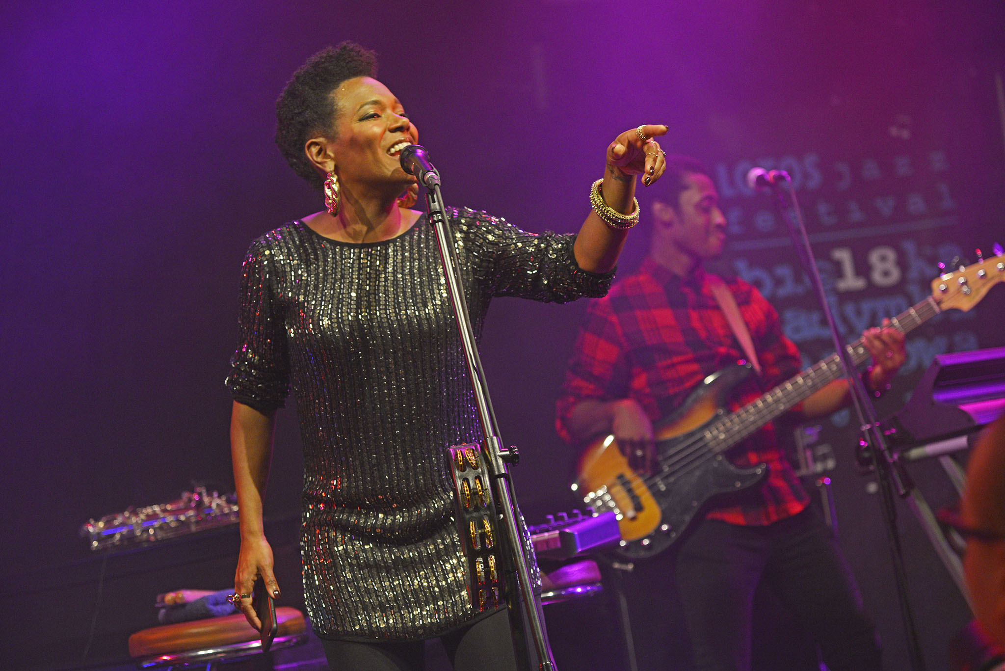 China Moses during Lotos Jazz Festival 2016, Bielska Zadymka Jazzowa, Bielsko-Biala, Poland